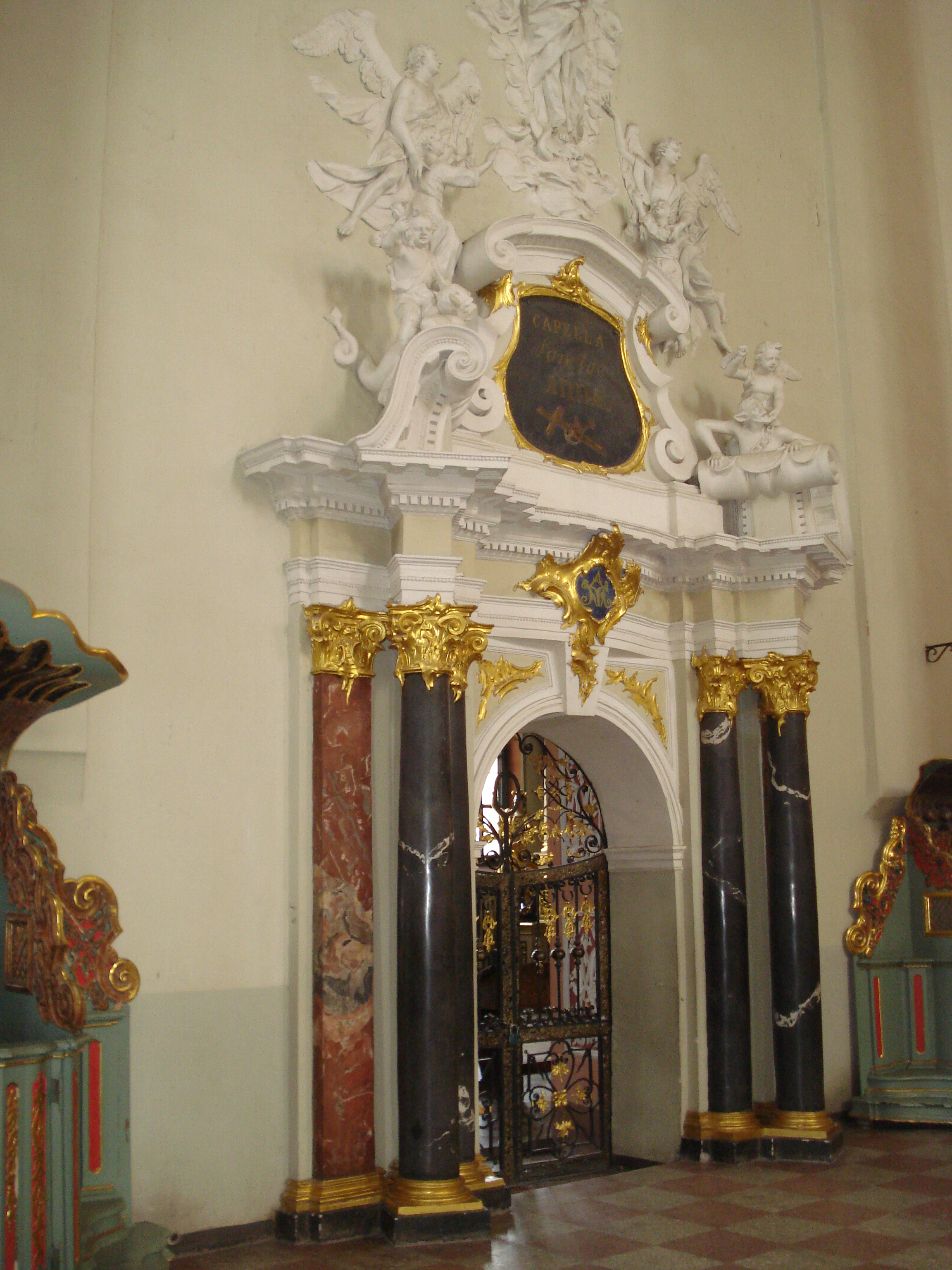 St Anna capella in the Church of St. John, Vilnius